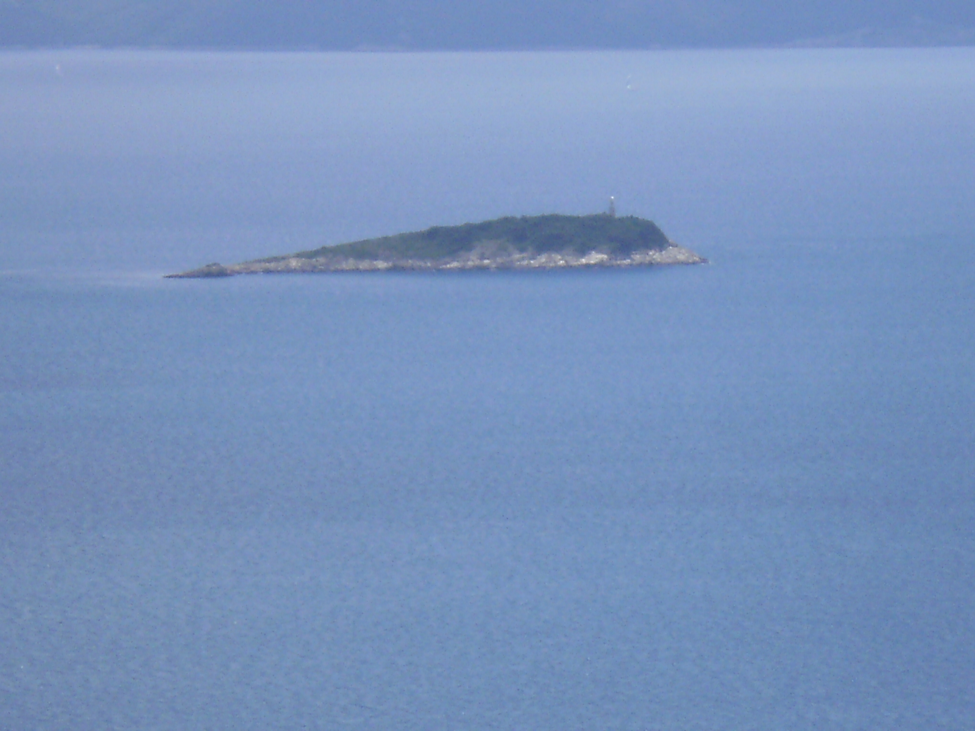 Island of Lirica